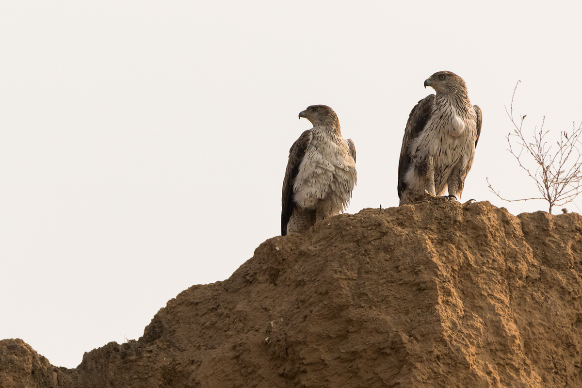 Bonell's Eagle Male and Female Together taken at National Chambal Sanctuary, Madhya Pradesh India